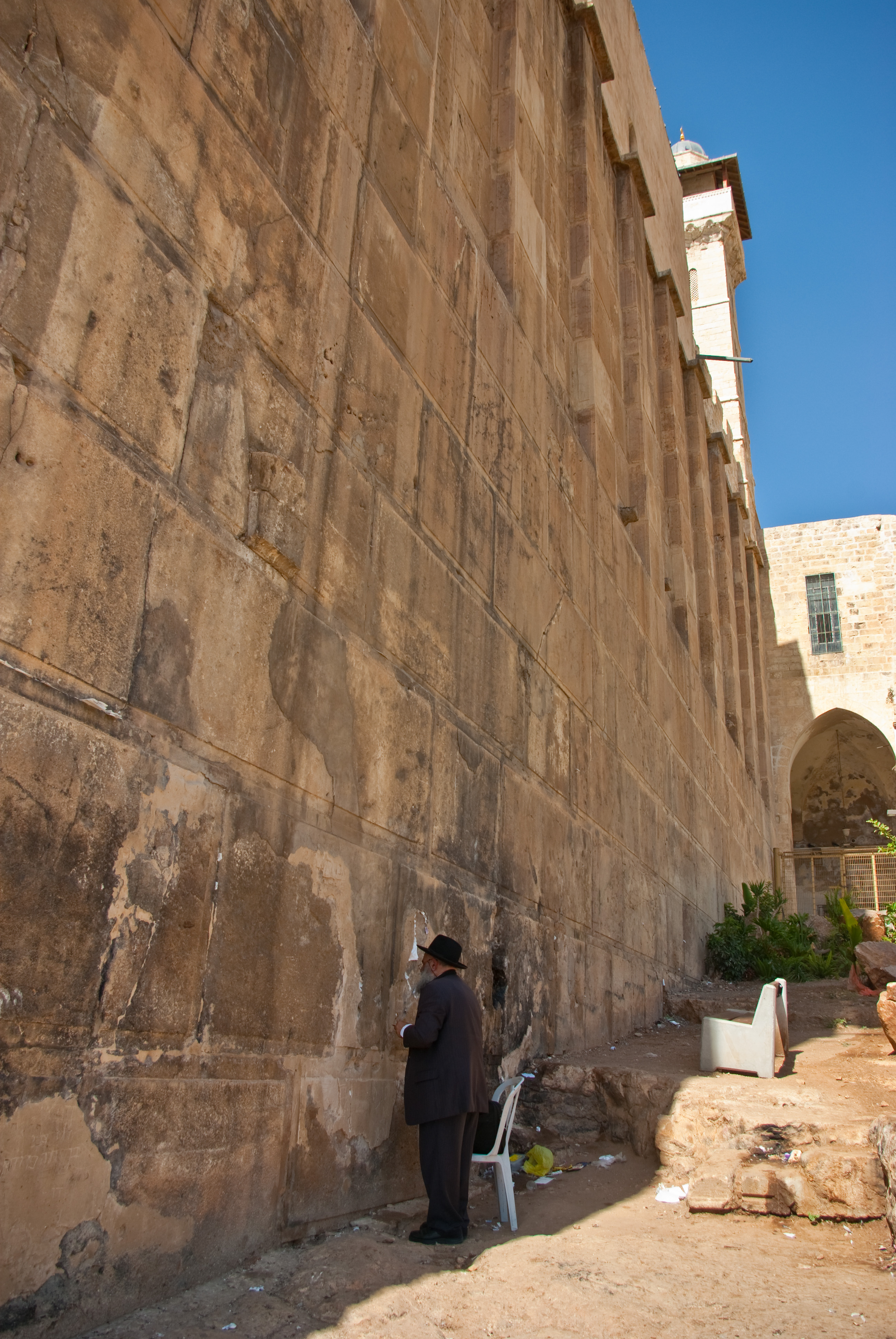 Cave of the Patriarchs